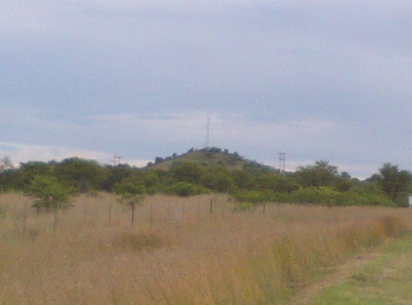 Koppie Alleen, Welkom Other information Nil